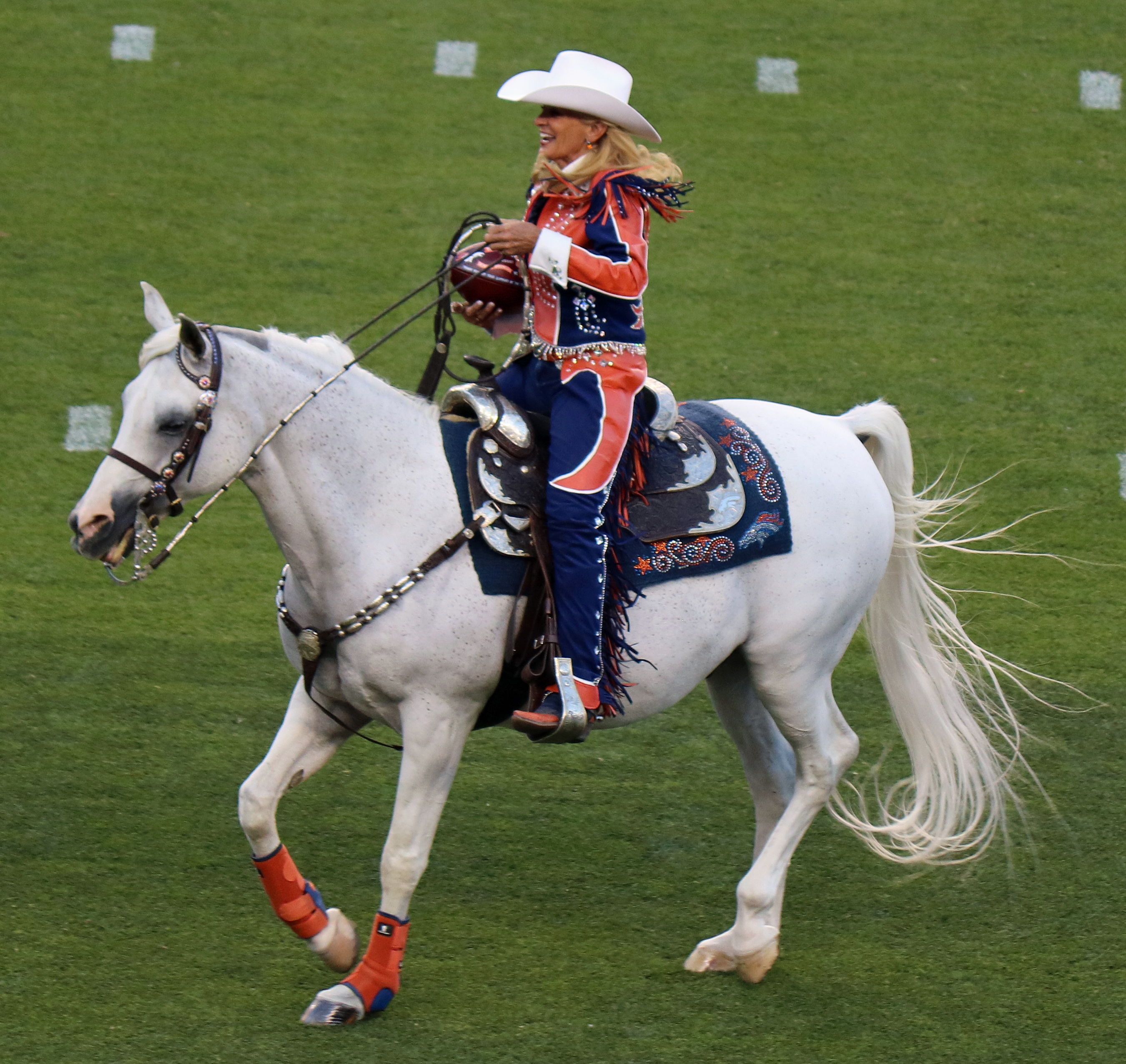 Thunder, the mascot for the Denver Broncos, on August 20. 2016, in Mile High Stadium, before a game between the Broncos and the San Francisco 49ers.